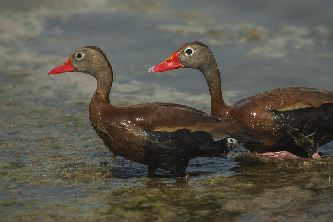 Black-bellied Whistling Duck Dendrocygna autumnalis - Texas - USA_H8O4228